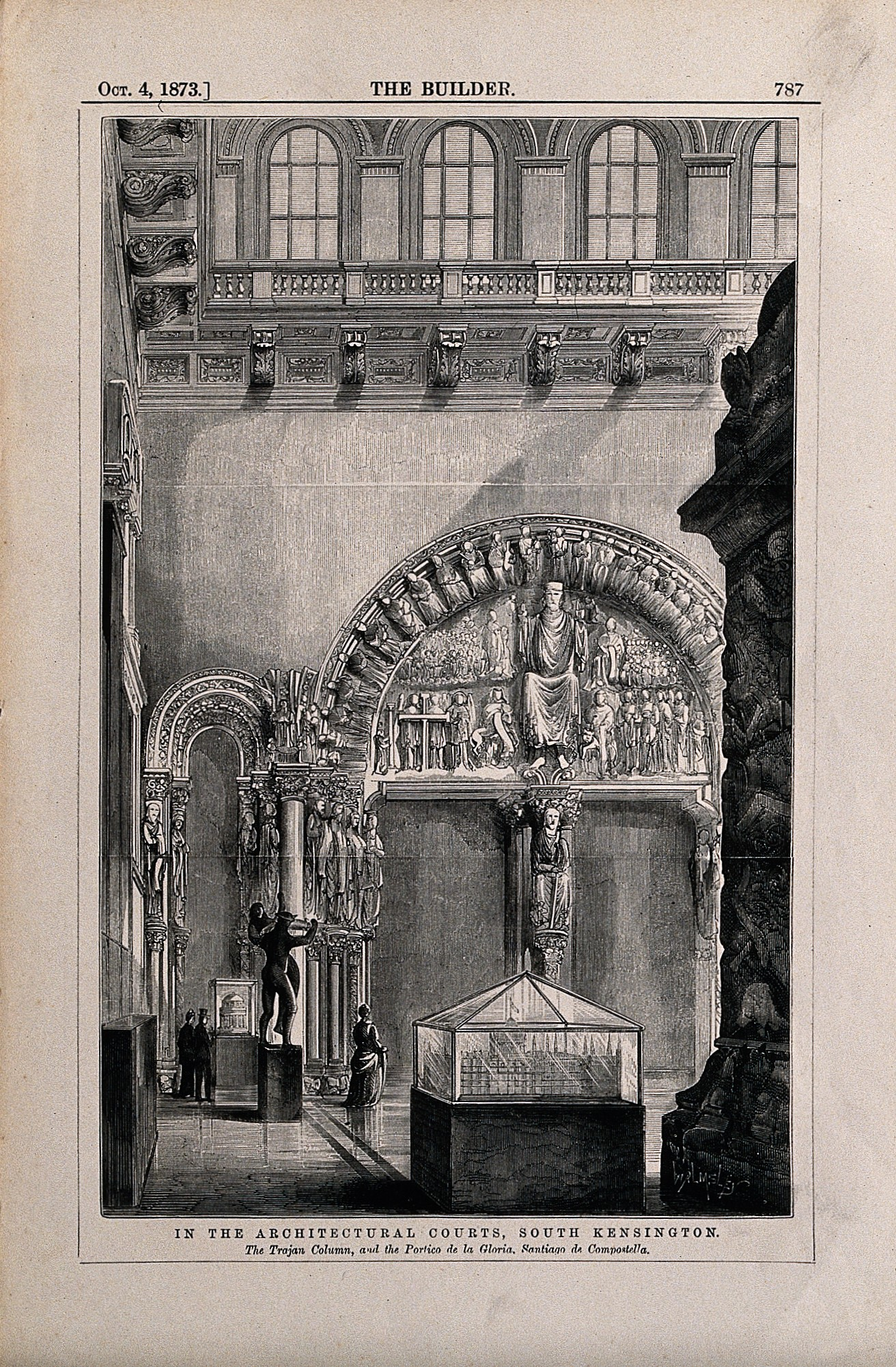 South Kensington Museum: the interior of the architectural court, with exhibits and visitors. Wood engraving by J. Walmsley, 1873. Iconographic Collections Keywords: John Walmsley; Victoria & Albert Museum (London)